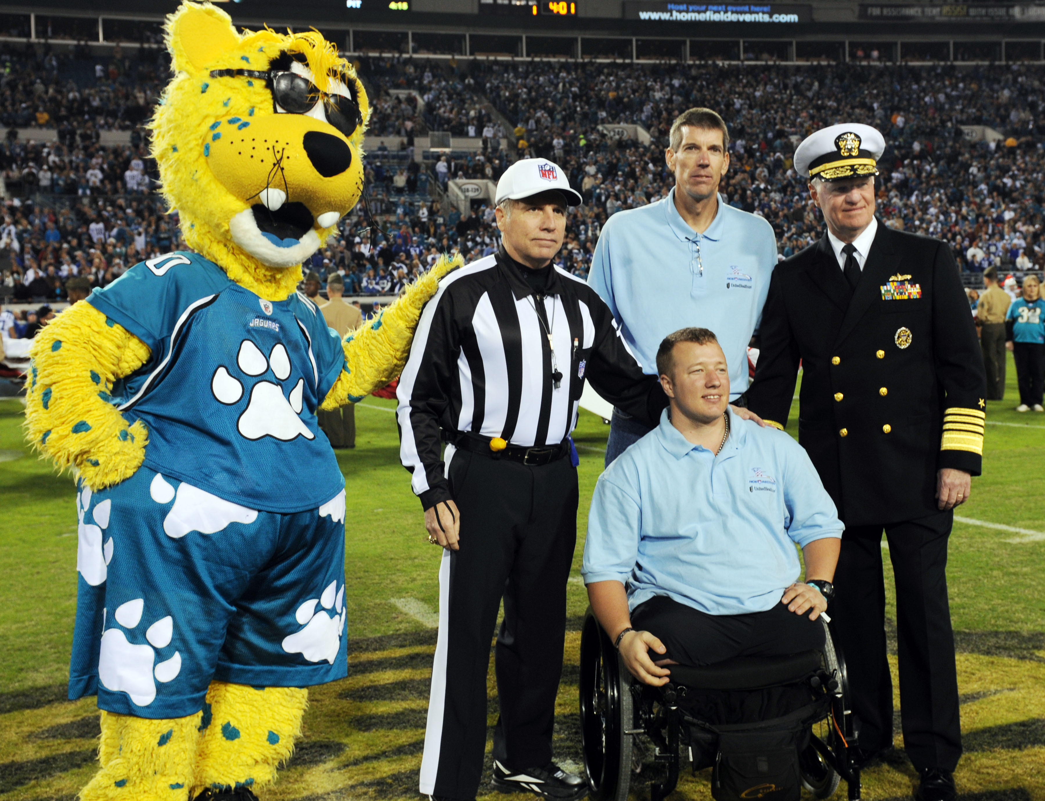 Adm. Gary Roughead, chief of Naval Operations, and Ride 2 Recovery Participant Nathan Hunt, pose for a photo with Jaguars mascot Jaxson De Ville on the Jacksonville Municipal Stadium field before the coin toss for the Jacksonville Jaguar Nation Football League game. Ride 2 Recovery encourages the mental and physical rehabilitation of active duty service members and veterans while promoting awareness of their sacrifices.